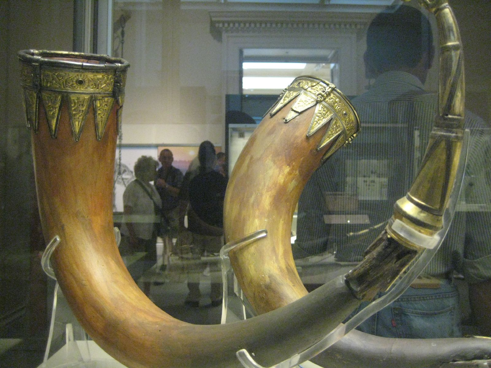 Pair of large drinking horns, found at Taplow, 6th century. British Museum description: "Pair of drinking horns, Anglo-Saxon, late 6th century AD. From the princely burial at Taplow, Buckinghamshire. Made from Aurochs horns with silver-gilt mounts [...] The horns are mounted with bird-headed terminals and panels of silver-gilt foils at the mouth. The lip is protected by a silver-gilt rim binding held by four clips in the form of a Style I human face with high brow and rounded cheeks. Beneath the rim-binding are rectangular foils decorated with a garnet-centred rosette flanked by Style I creatures. The creatures have 'helmeted' heads and raised hands and are similar to those in the triangular mounts below. Each terminal is ornamented with a cast Style II bird head with a simple curling beak and rounded head." Literature: J. Stevens, 'On the remains found in an Anglo-Saxon tumulus at Taplow, Buckinghamshire', Journal of the British Archa-2, 40 (1884), pp. 61-71, plates 1, 11-12 R.L.S. Bruce-Mitford, The Sutton Hoo ship burial-1, vol. 3 (London, The British Museum Press, 1983)